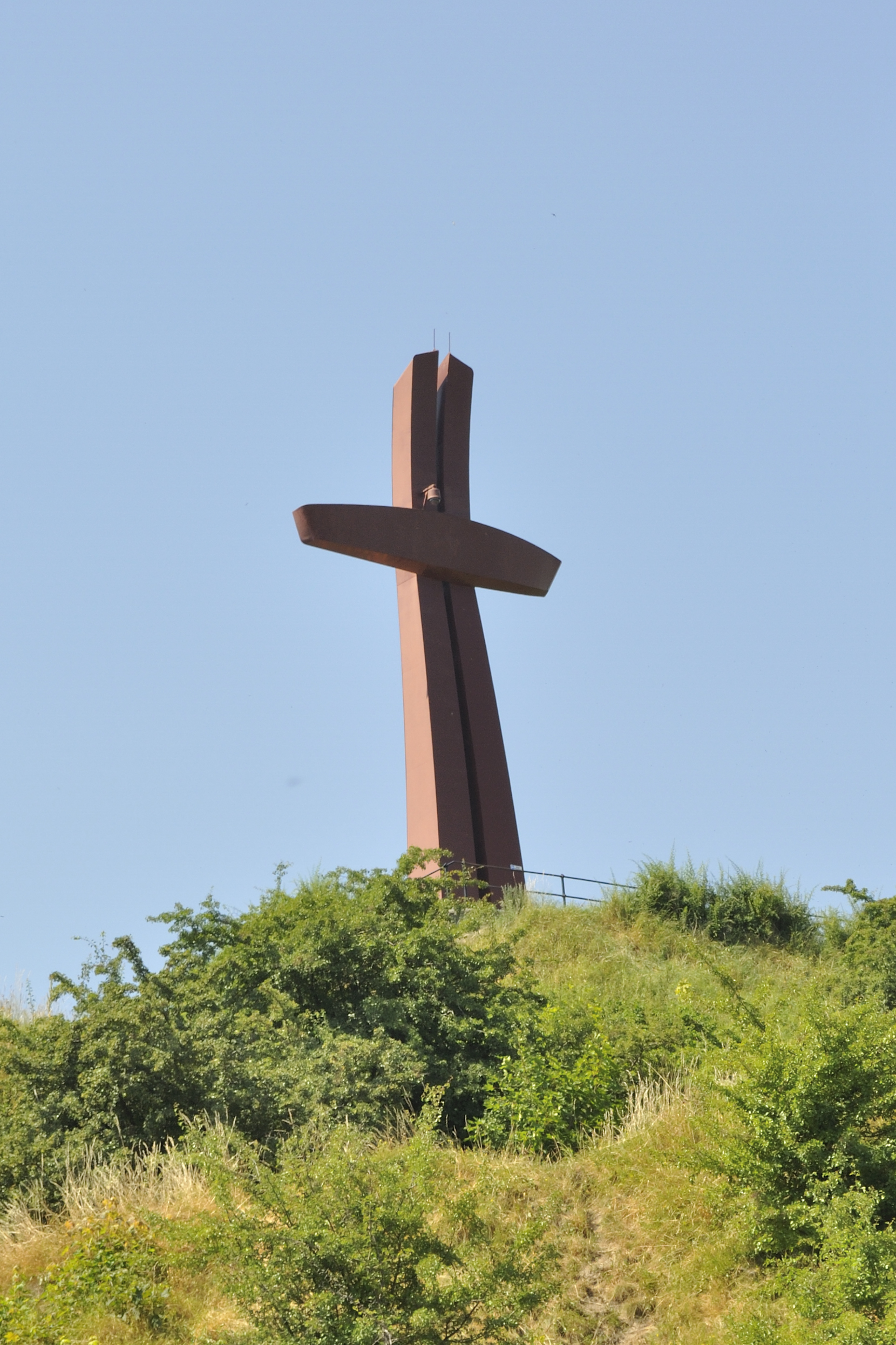 Picture taken in Gdańsk after Wikimania 2010 conference. Pomnik Millennium.